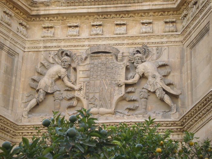 Detail of the apse of the church of San Jerome Monastery, in Granada, Spain. Renaissance style. Coat of arms of Gonzalo Fernández de Córdoba, the Fernández de Córdoba family tomb or "pantheon" is on the inside, c.f. Detalle de escudo en la cabecera de iglesia de San Jerónimo (monasterio), en Granada, España. Renacentista.